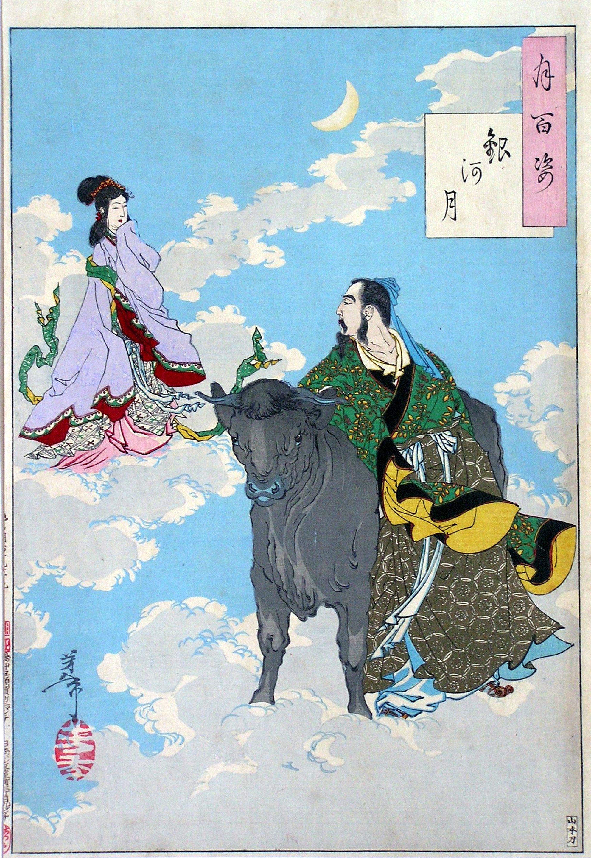 The Moon of the Milky Way (Ginga no tsuki)